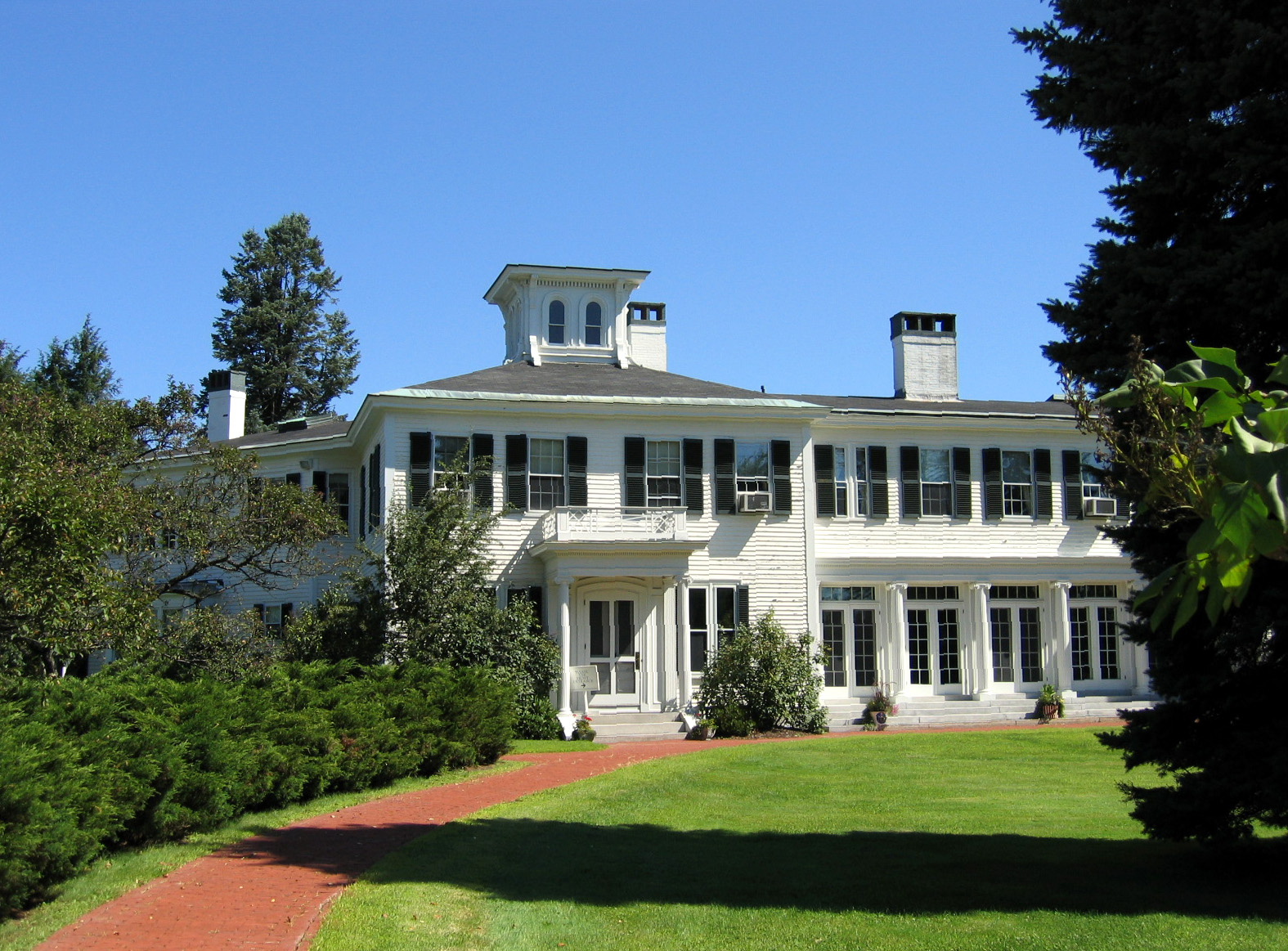 A photograph of The Blaine House, the official residence of the Governor of Maine, located in Augusta. The picture was taken with a Canon PowerShot S50 digital camera and edited with Adobe Photoshop.